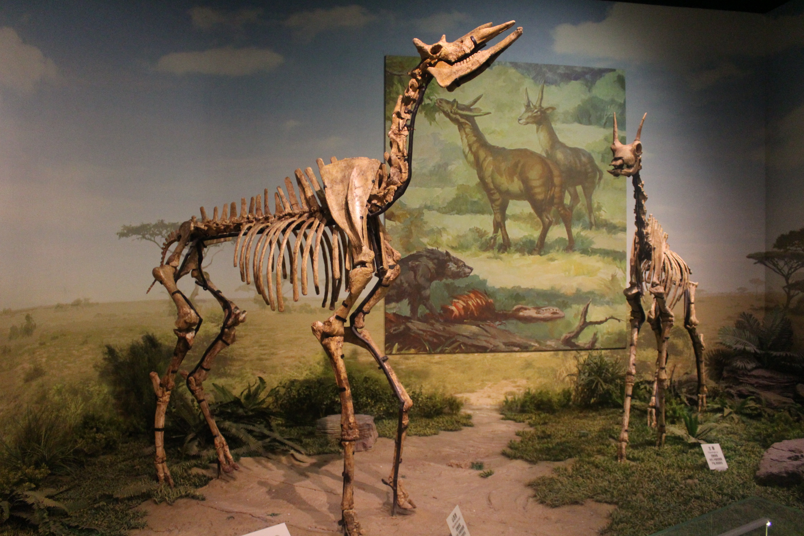 Skeletal mounts of Shansitherium tafeli and Palaeotragus sp. on display at the Tianjin Natural History Museum.